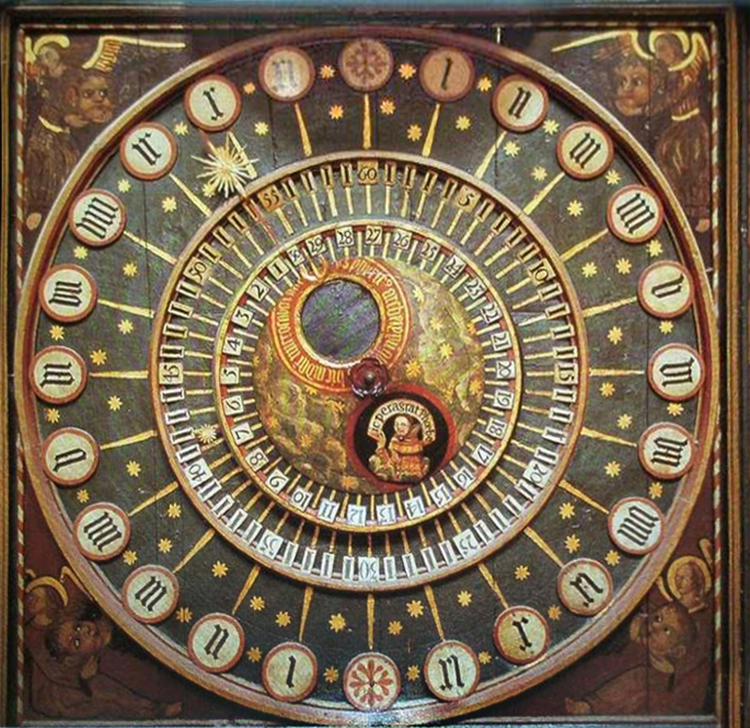 Astronomical clock of Wells Cathedral